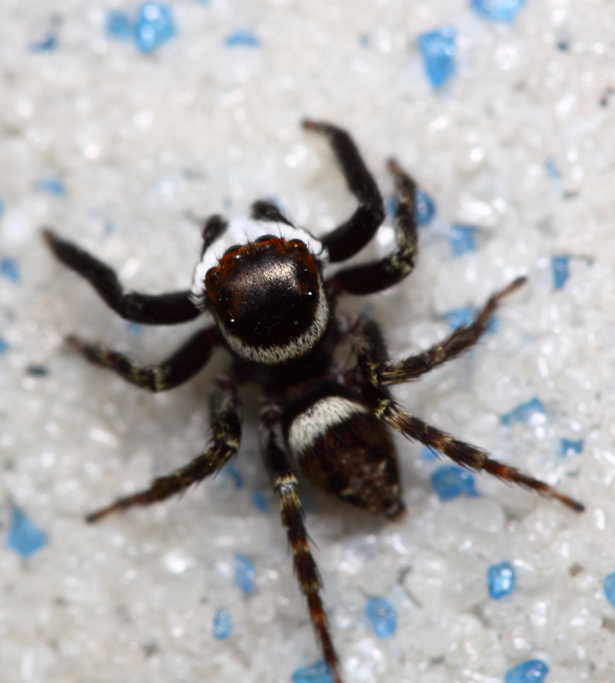 Hasarius adansoni (Salticidae) male. Photo taken at São Paulo City, SP State, Brazil